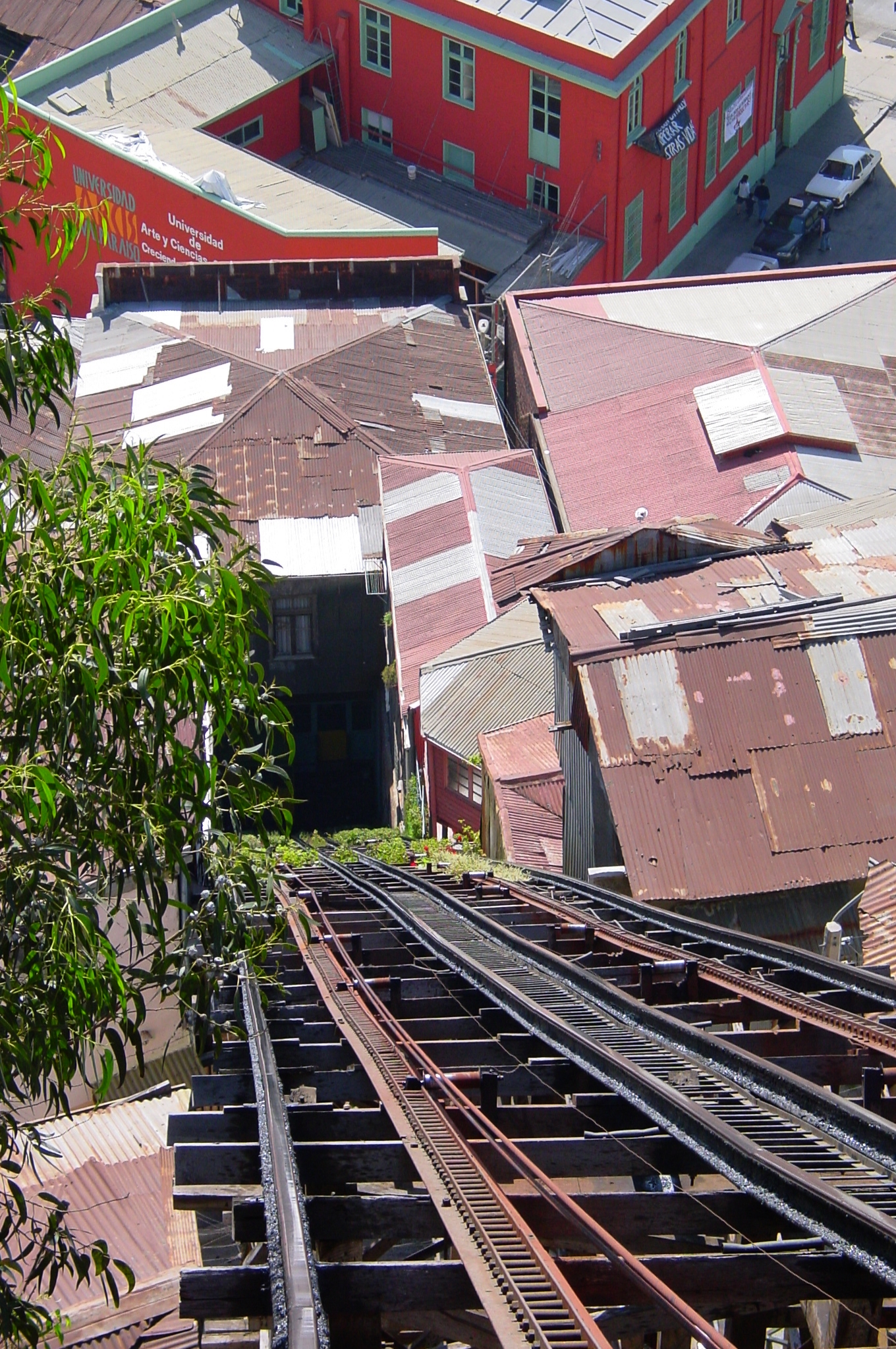 Ascensor Monjas...